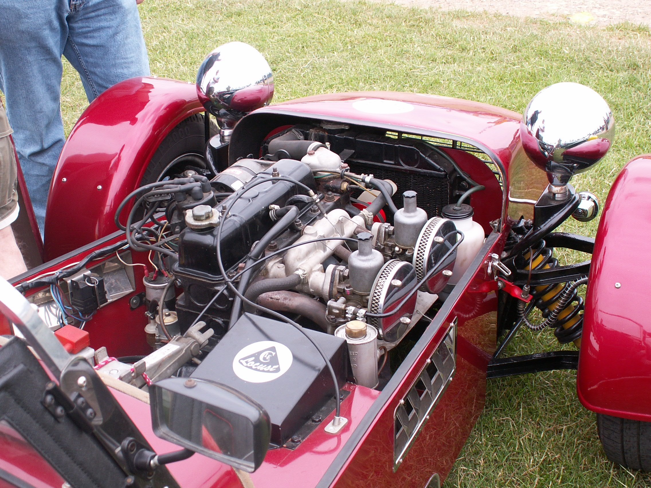 Locust Seven - Triumph Based Original photograph taken by Peter Wannop